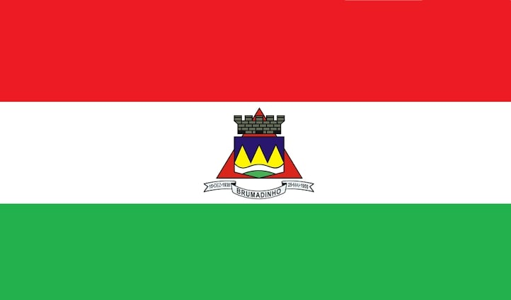 Flags of the city of Brumadinho, Minas Gerais, Brazil.